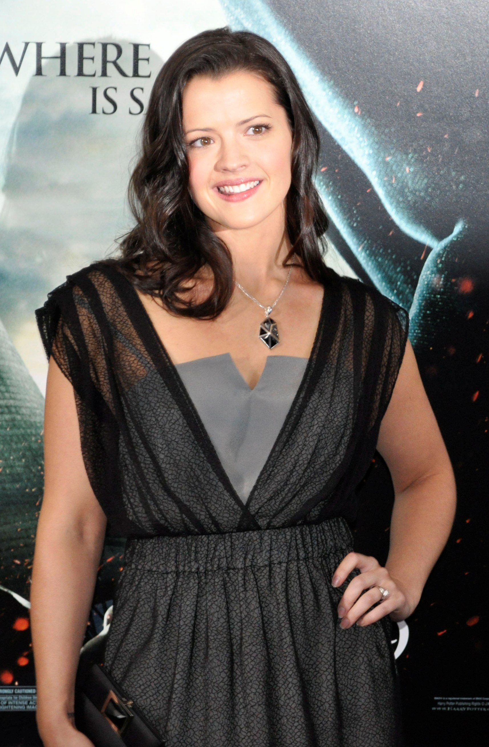 Rose Hemingway at the film premiere of Harry Potter and The Deathly Hallows in Alice Tully Center, New York City in November 2010.